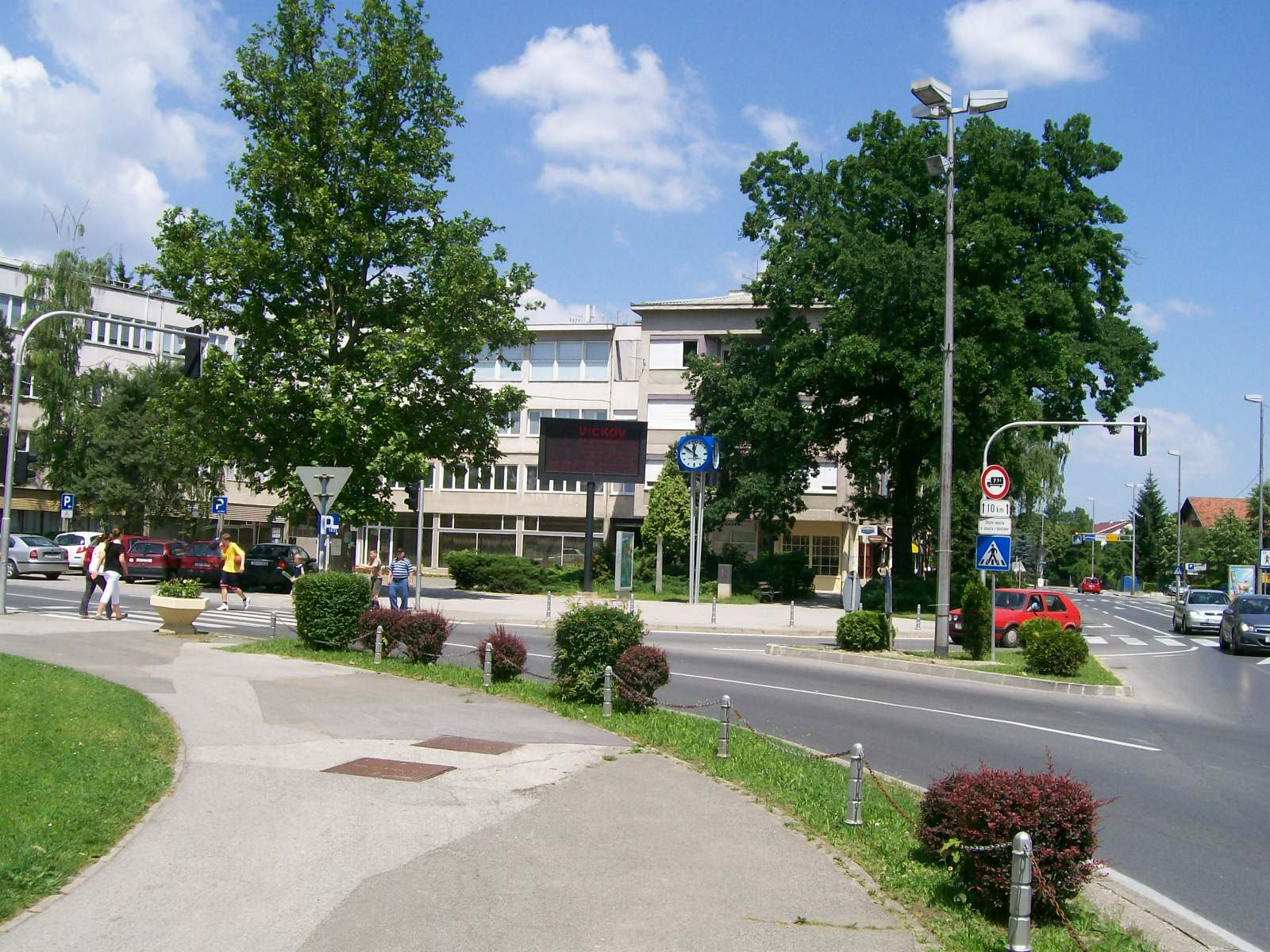 Zaprešić - center